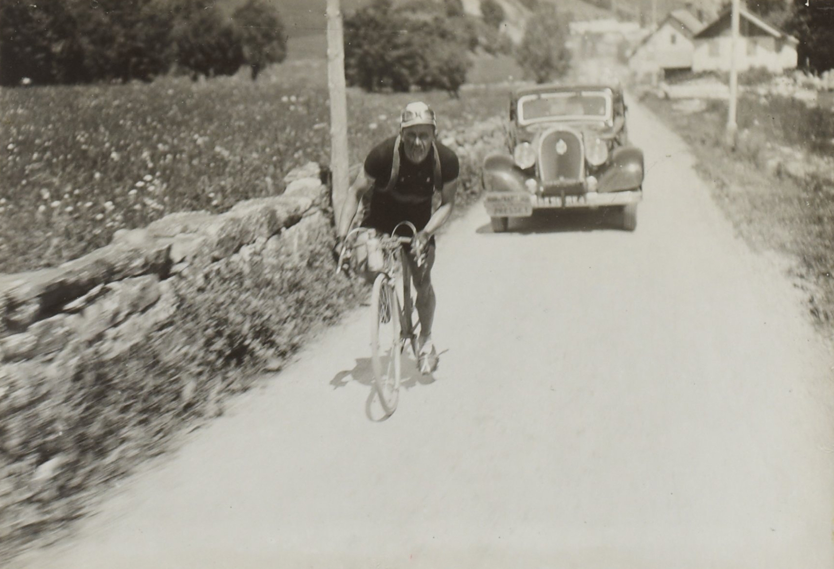 Tour de France 1936